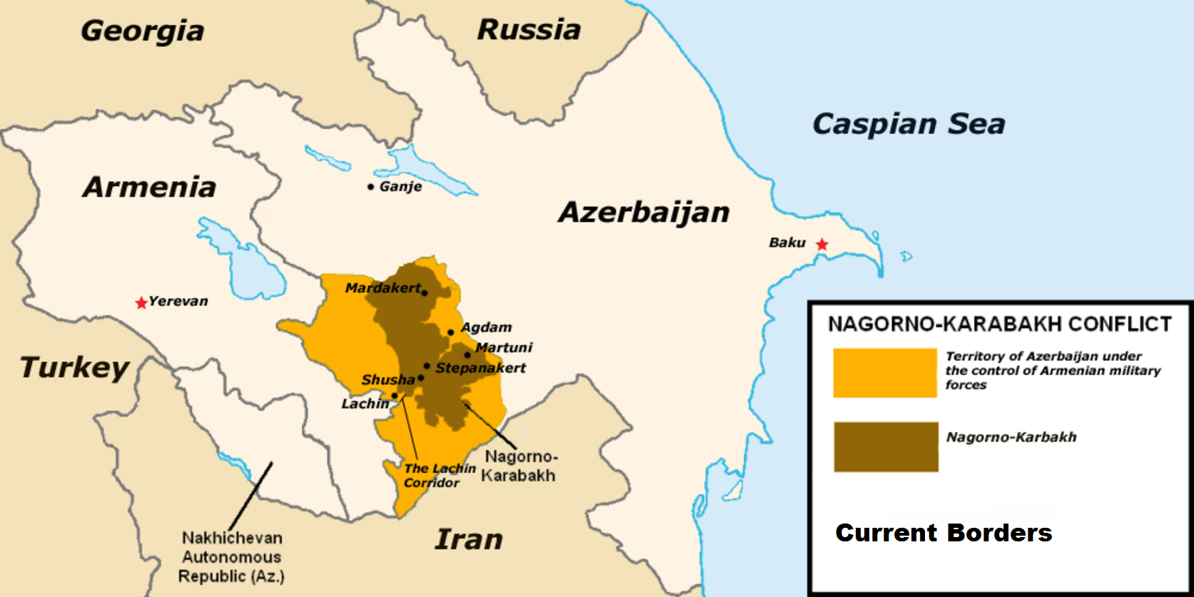 Karabakh map